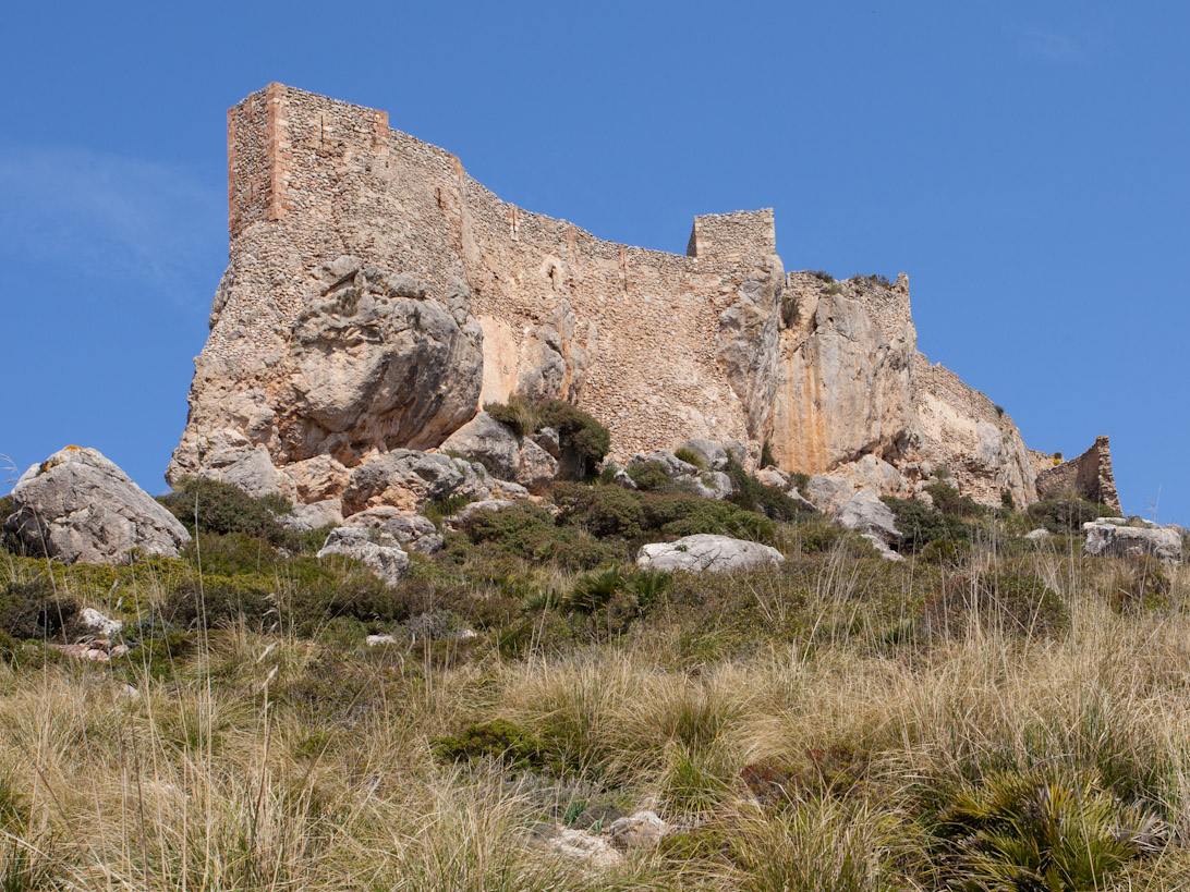 Castell del Rei near Pollença. Mallorca.